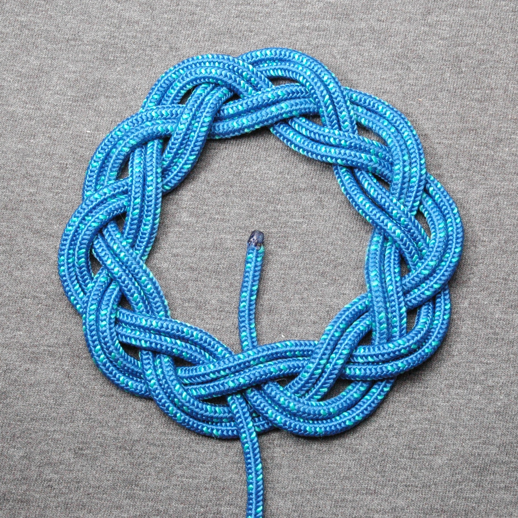 A 3-lead 10-bight Turk's head knot (Decagram (geometry)). The knot is "doubled", meaning that the end is retraced through the knot once after it was tied.